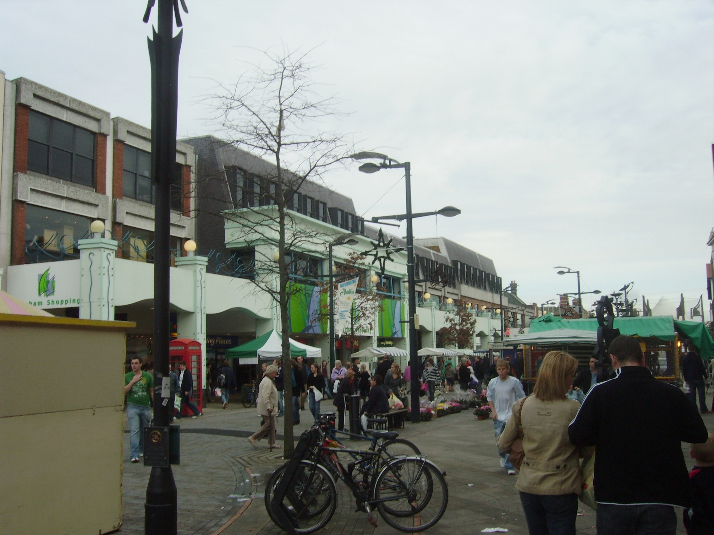 Fareham's busy West Street, with Fareham Shopping Centre on the left.